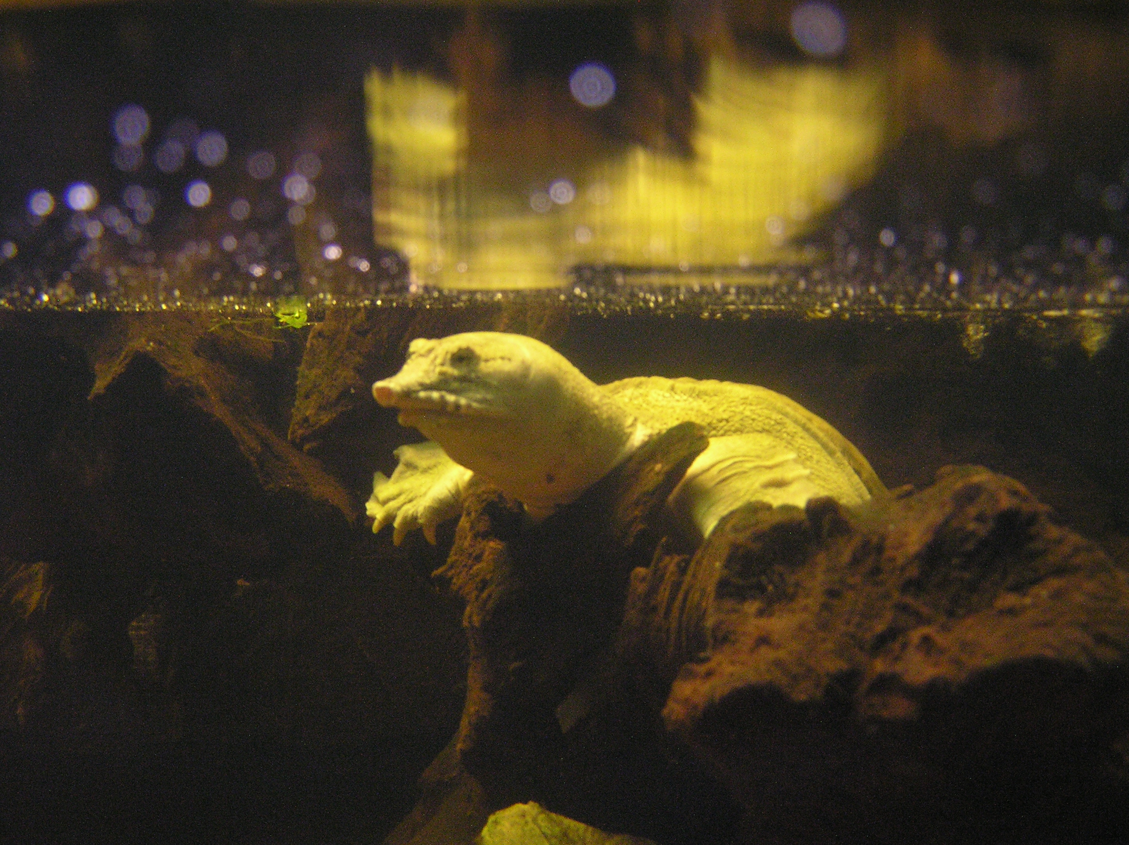 Pelodiscus sinensis in the Gdynia Aquarium